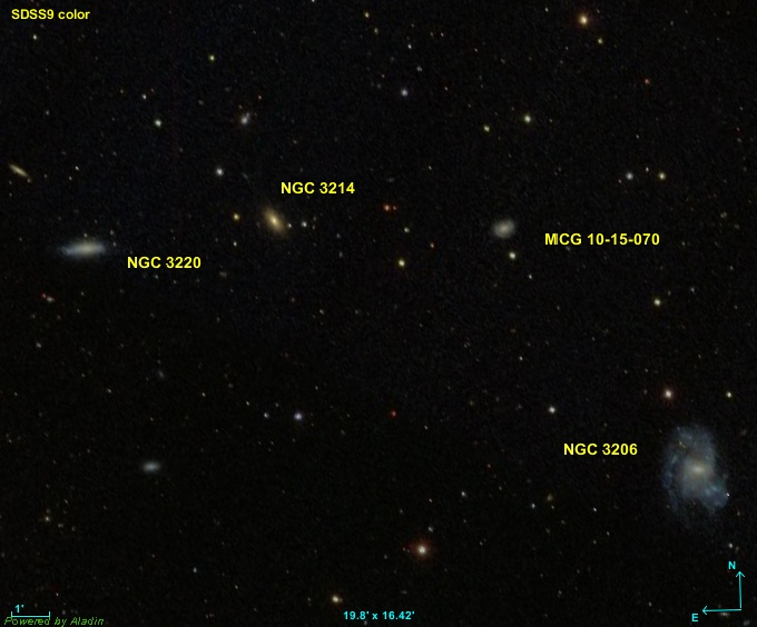 Image created using the Aladin Sky Atlas software from the Strasbourg Astronomical Data Center and SDSS (Sloan Digital Sky Survey) public data.